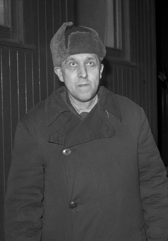 Photograph of the Russian-Finnish emigré and intelligence agent Kirill Nikolayevich Pushkaryov (1897–1984